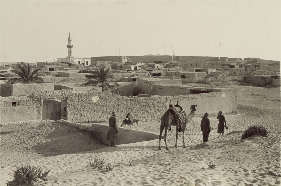 General view of El Arish., 1916